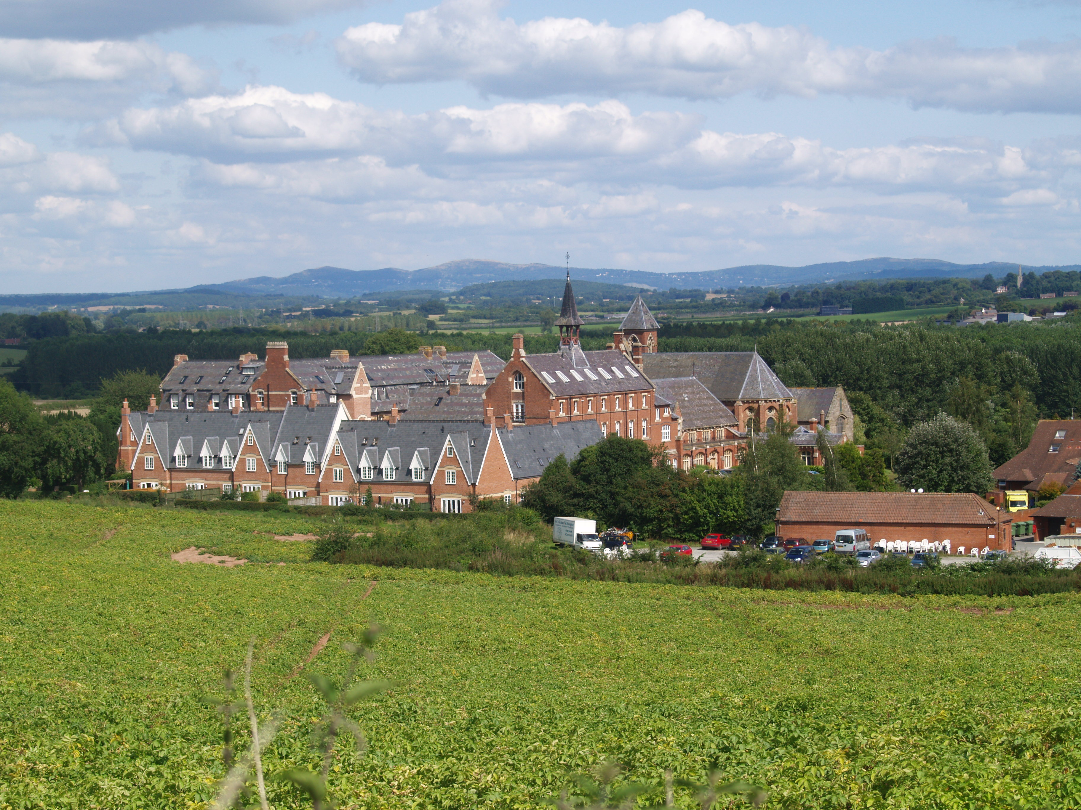 Former Convent of Our Lady of Charity, former Roman Catholic church of St James (centre right) and St Michael's Hospice (right), Bartestree, Herefordshire